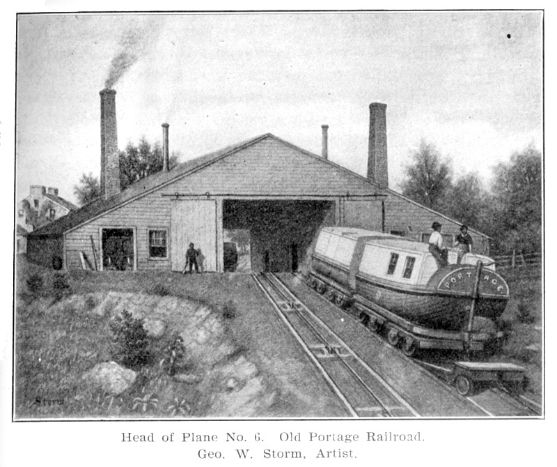 A drawing of No. 6 engine house of the Allegheny Portage Railroad by George Storm, 1839.